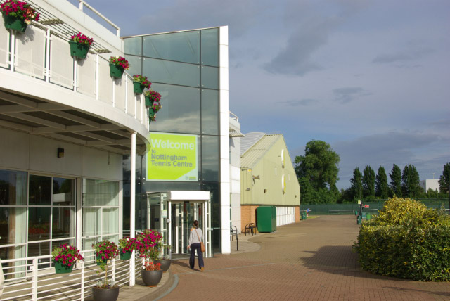 Showing the main building which houses eight indoor courts, Nottingham Tennis Centre